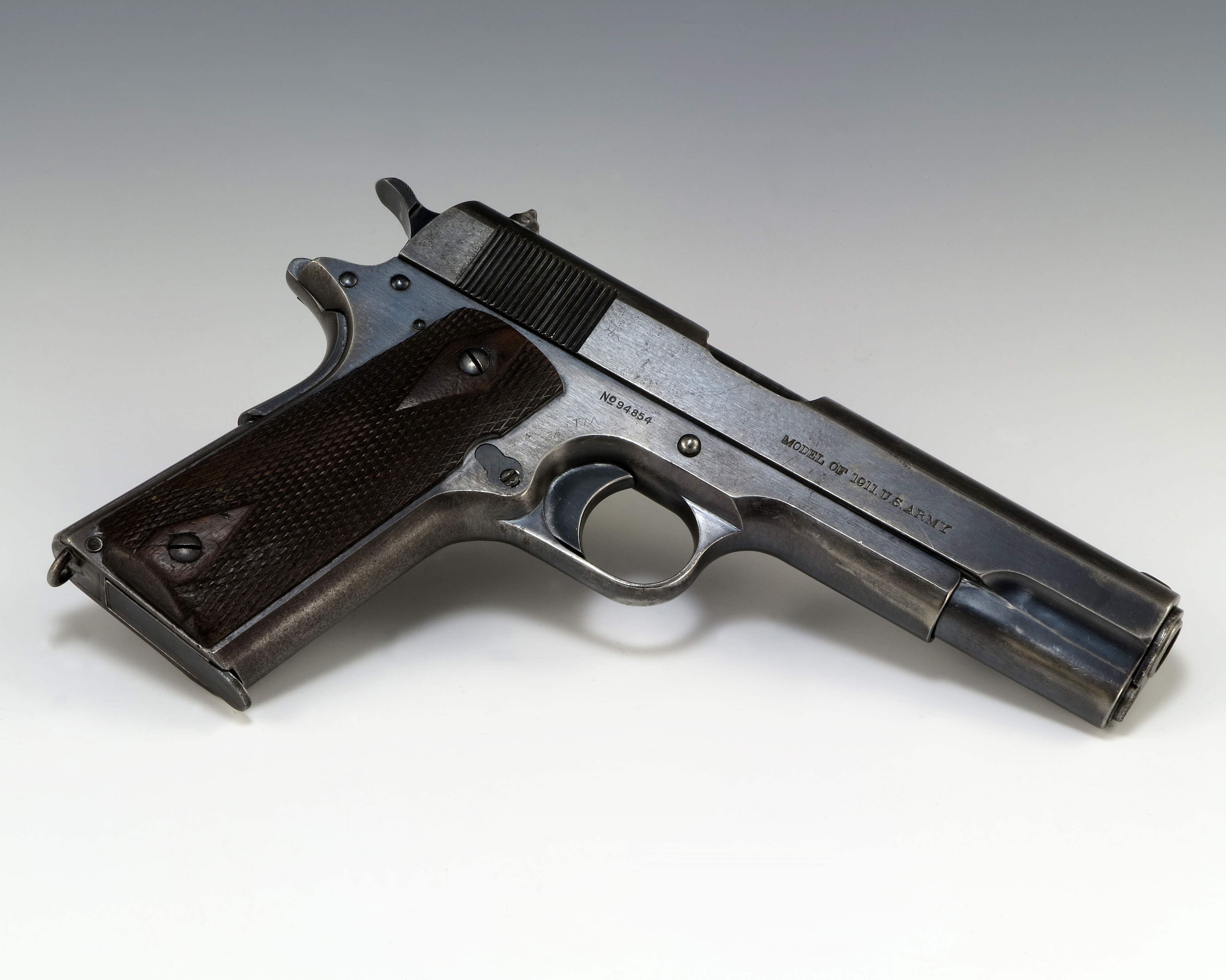 Colt 1911 model semi-automatic .45 caliber pistol used by Lynette “Squeaky” Fromme to try and assassinate President Gerald R. Ford on September 5, 1975, in Sacramento, California. One side of slide marked “Model of 1911 U.S. Army.” Opposite side of slide marked “Colt's PT.F.A. MFG. Co. / Hartford. CT. U.S.A.” Serial number on the weapon is 94854, which dates manufacture to 1914. Gift of U. S. Attorney's Office, Sacramento, California.